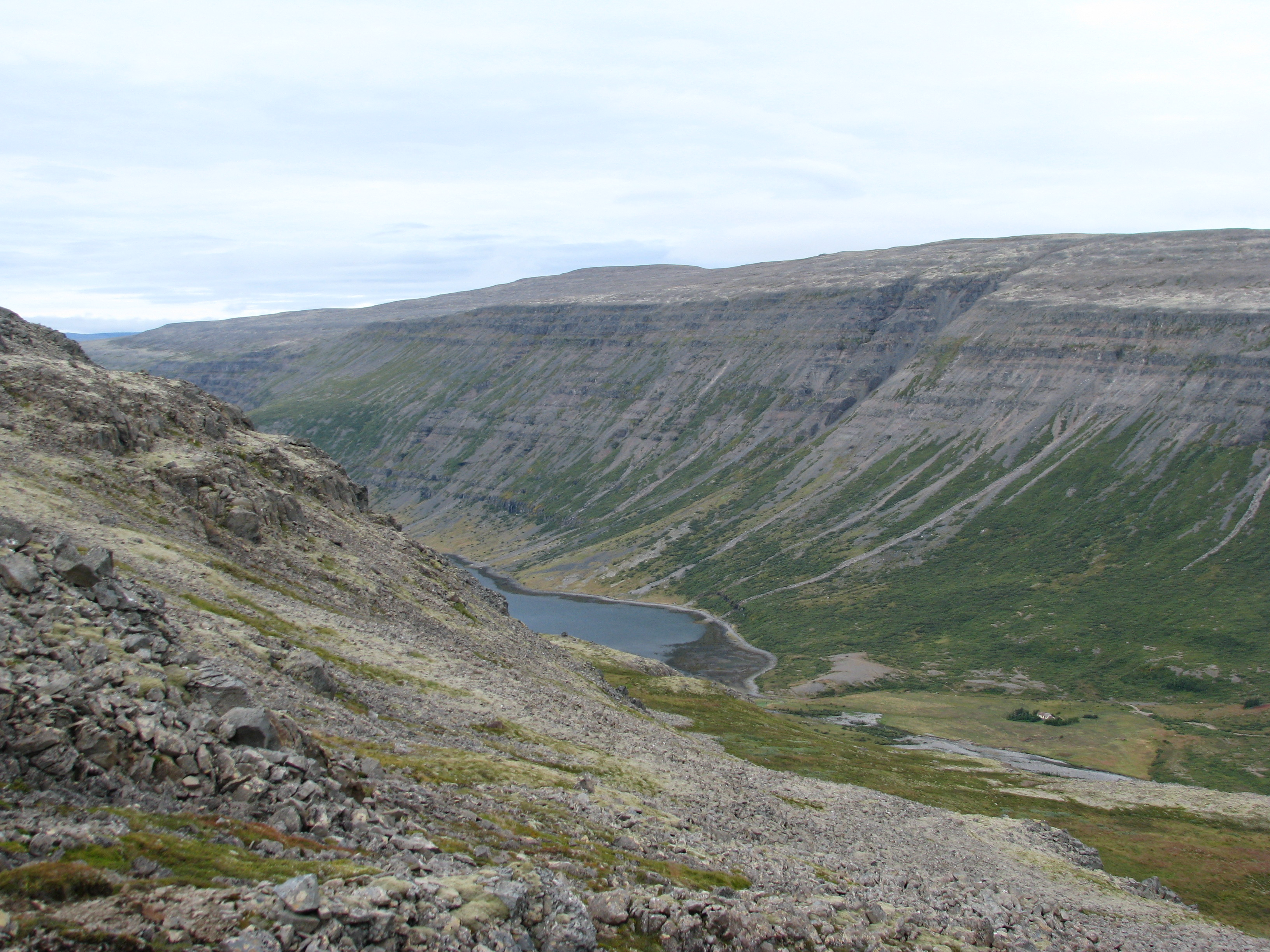 Geirsþjófsfjörður, a fjord in the Westfjords, Iceland.